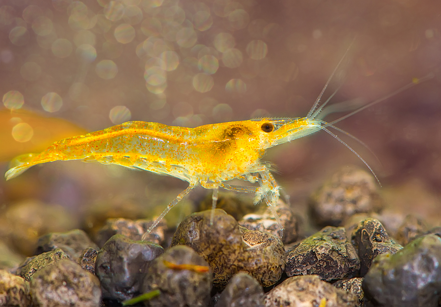 Orange fire shrimp in the tank